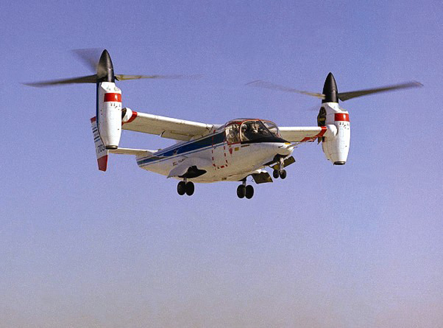 The NASA-Army-Bell XV-15 tiltrotor research aircraft hovered (1976) and then demonstrated conversion and forward flight (1978) as the first tilting rotor vehicle to solve the problems of "prop whirl." Through tremendously difficult research, the tilt rotor aircraft was able to combine the advantages of vertical liftoff and landing capabilities, which are inherent to the traditional helicopter, with the forward speed and range of a fixed wing turboprop airplane. This research can eventually lead to providing the aviation transportation industry with the flexibility for high-speed, long-range flight, united with runway-independent operations, thereby significantly relieving airport congestion. The research success so far has directly led to the V-22 Osprey development. For more information, please see NASA History Monograph 17, The History of the XV-15 Tilt Rotor Research Aircraft:From Concept to Flight by Martin Maisel.